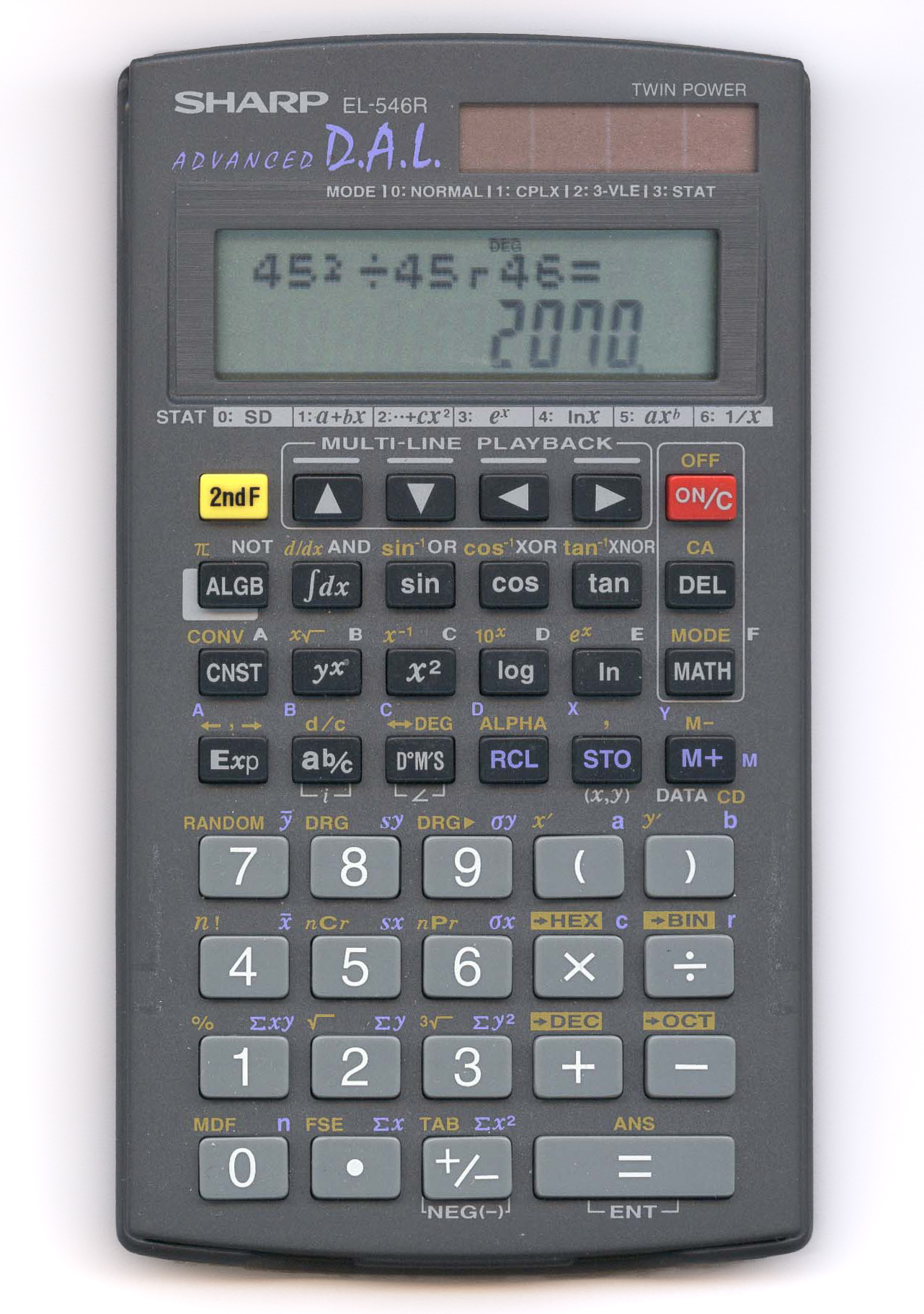 The Sharp EL-546R is a scientific-calculator, used in schools.